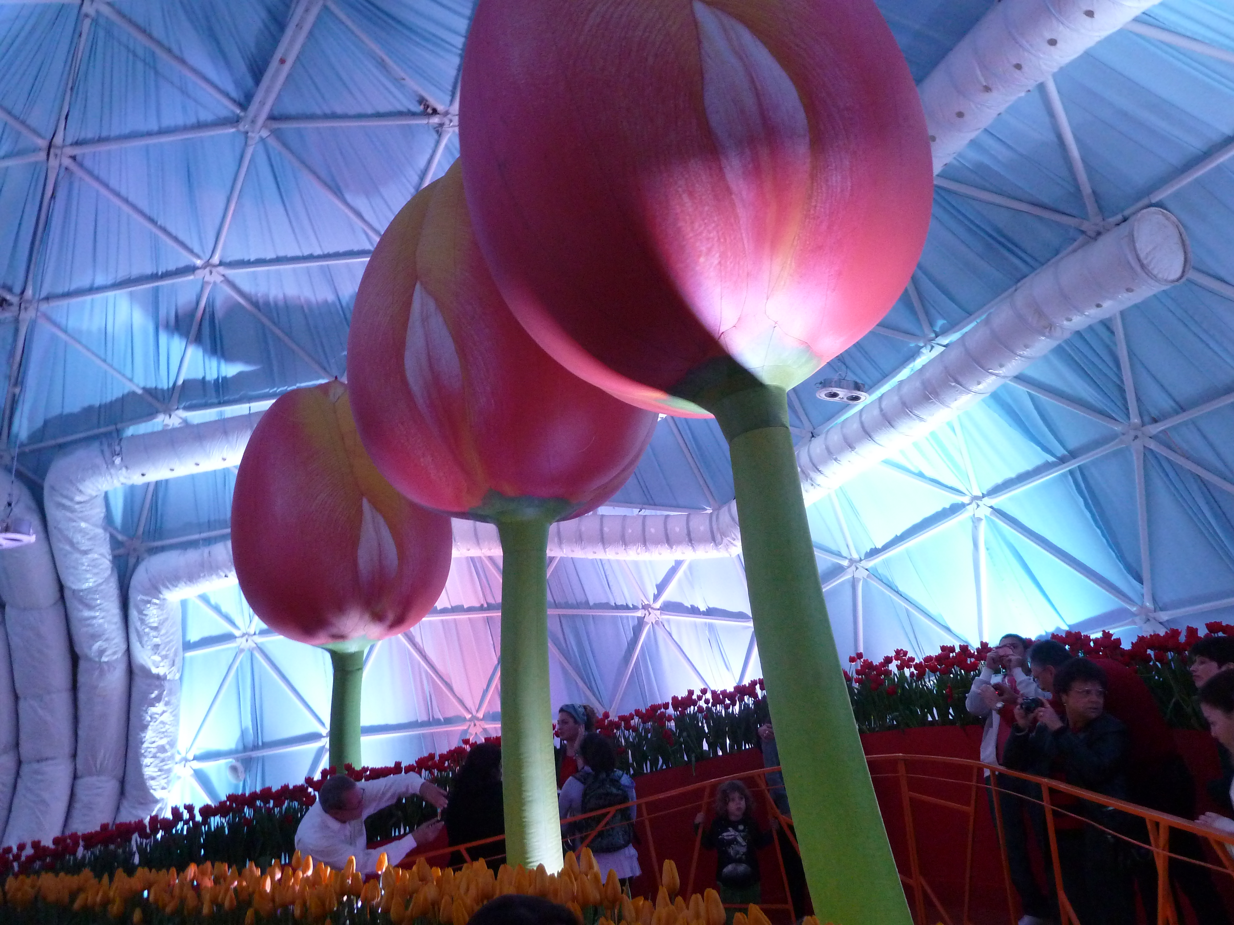 IHaifa International Flower Exhibition 2012, Hecht Park, Haifa, Israel